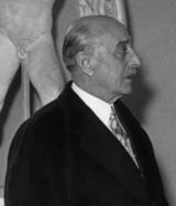 Title: Museum München, Ministerpräsident Griechenland People in the image: Papagos, Alexandros: 1883-1955; Ministerpräsident, Marschall, Griechenland (GND 119152886) Factual corrections and alternative descriptions are encouraged separately from the original description. Additionally errors can be reported at this page to inform the Bundesarchiv. Original historic description: München, Haus der Kunst anlassl. des Besuches des griechischen Ministerpräsidenten Papagos von 30.6-6.7.1954